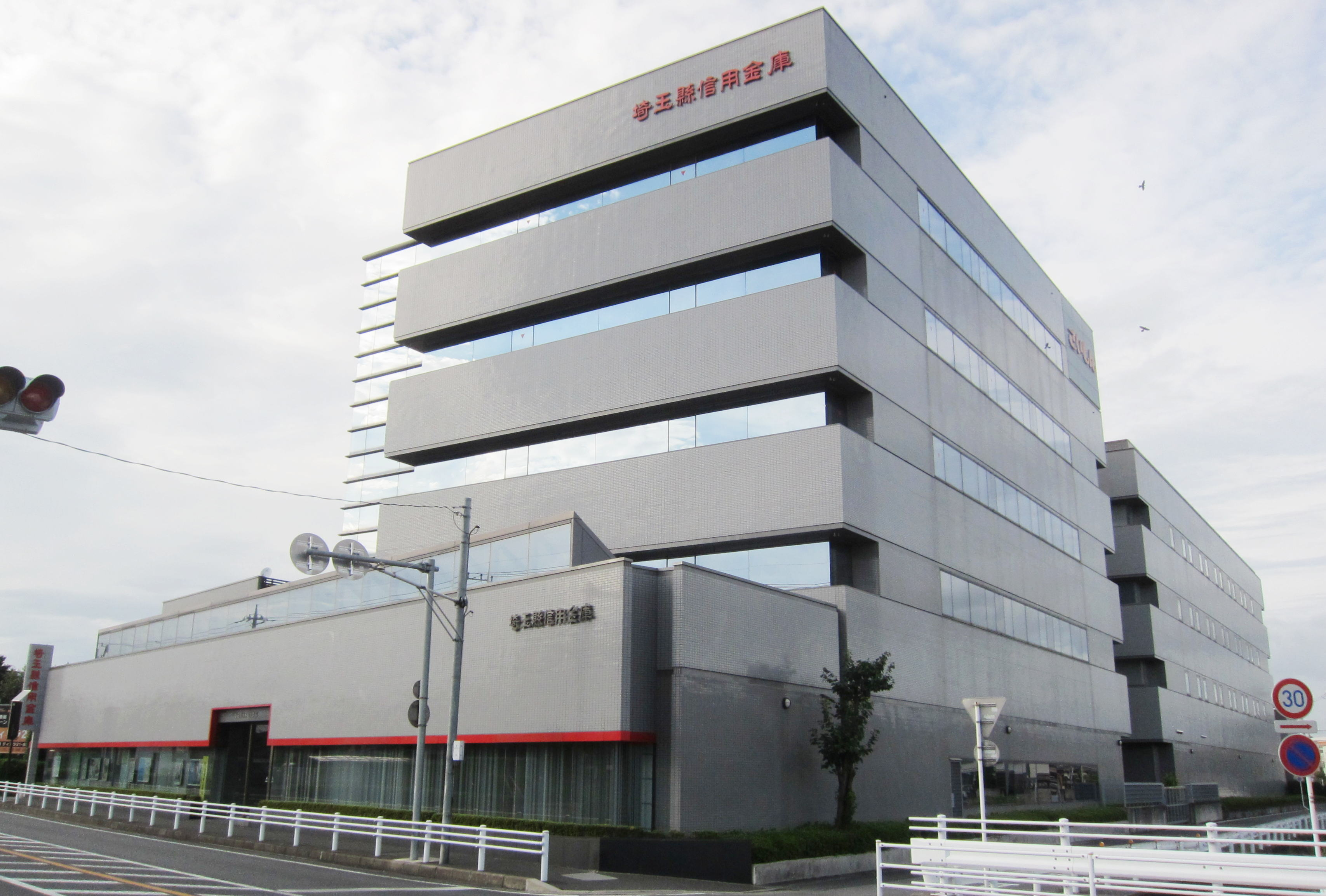 Saitamaken Shinkin Bank Head Office